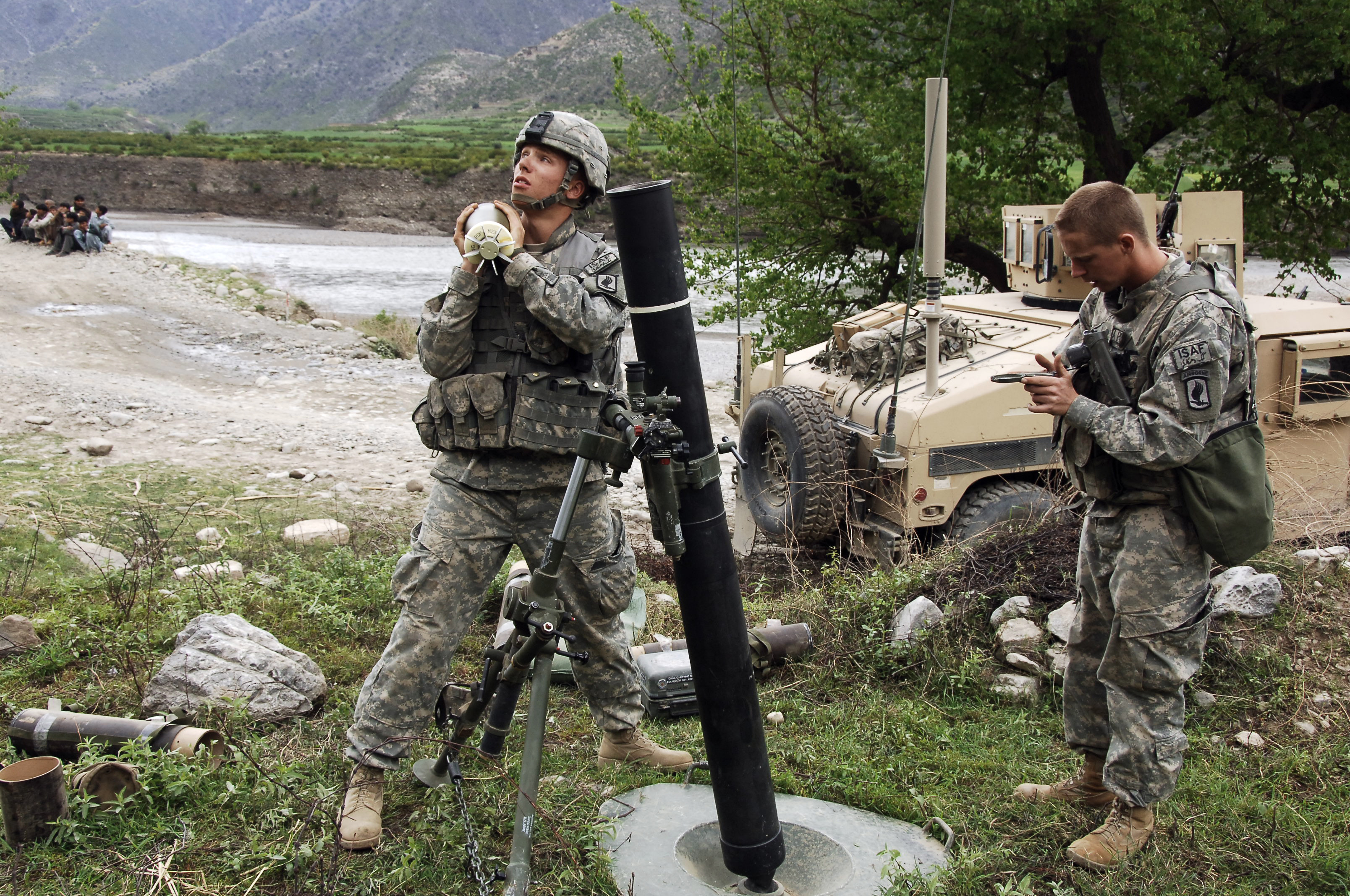 "U.S. Army Spc. David Caldwell checks the azimuth on 120-mm mortar as Pfc. Samuel Schuster prepares to fire a round during operations south of Forward Operating Base Naray, Afghanistan, March 26, 2008. The Soldiers are firing the mortar in hopes of flushing out anti-coalition militia suspected of attacking an Afghan supply truck. (U.S. Army photo by Spc. Derek Niccolson) ( "